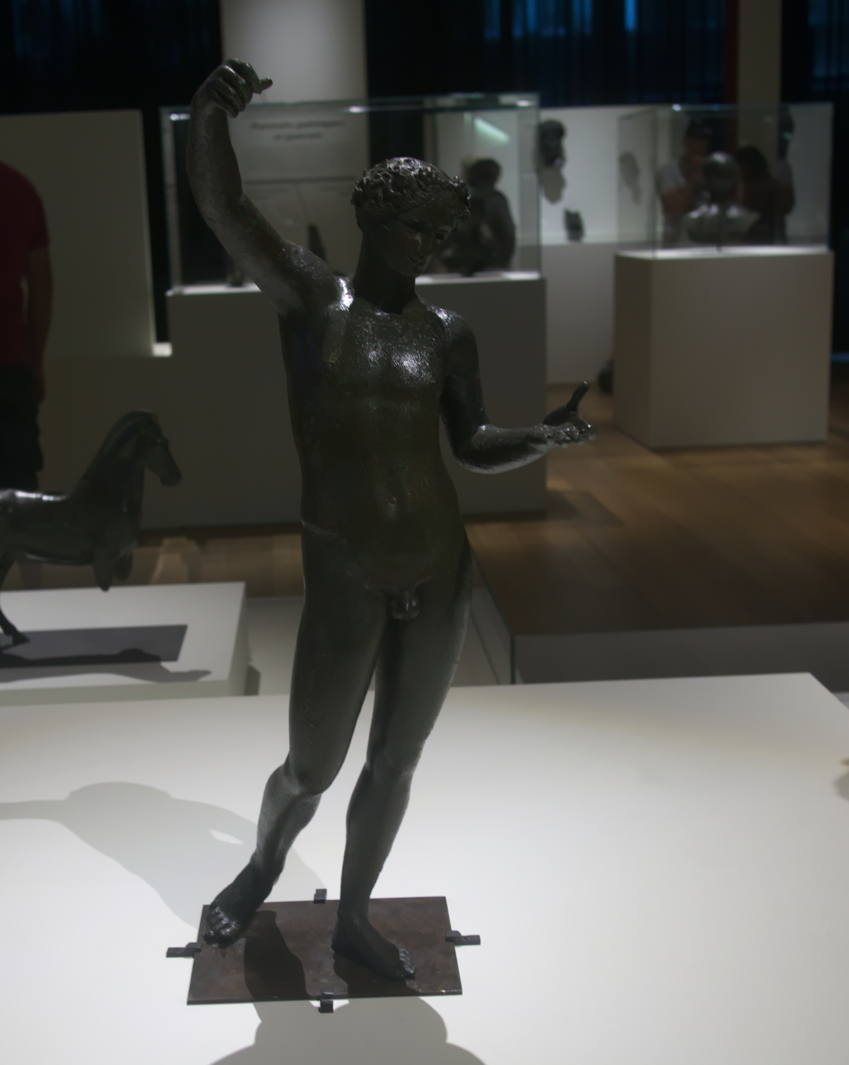 photograph taken during the temporary exposition that took place at the MuCEM of Marseille in august 2014.